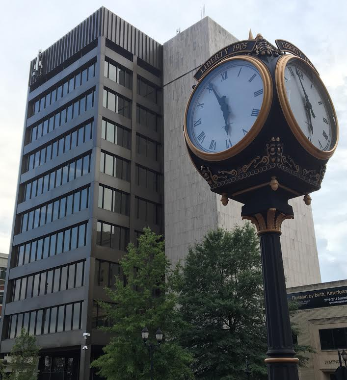 Greenville City Hall downtown Greenville, SC